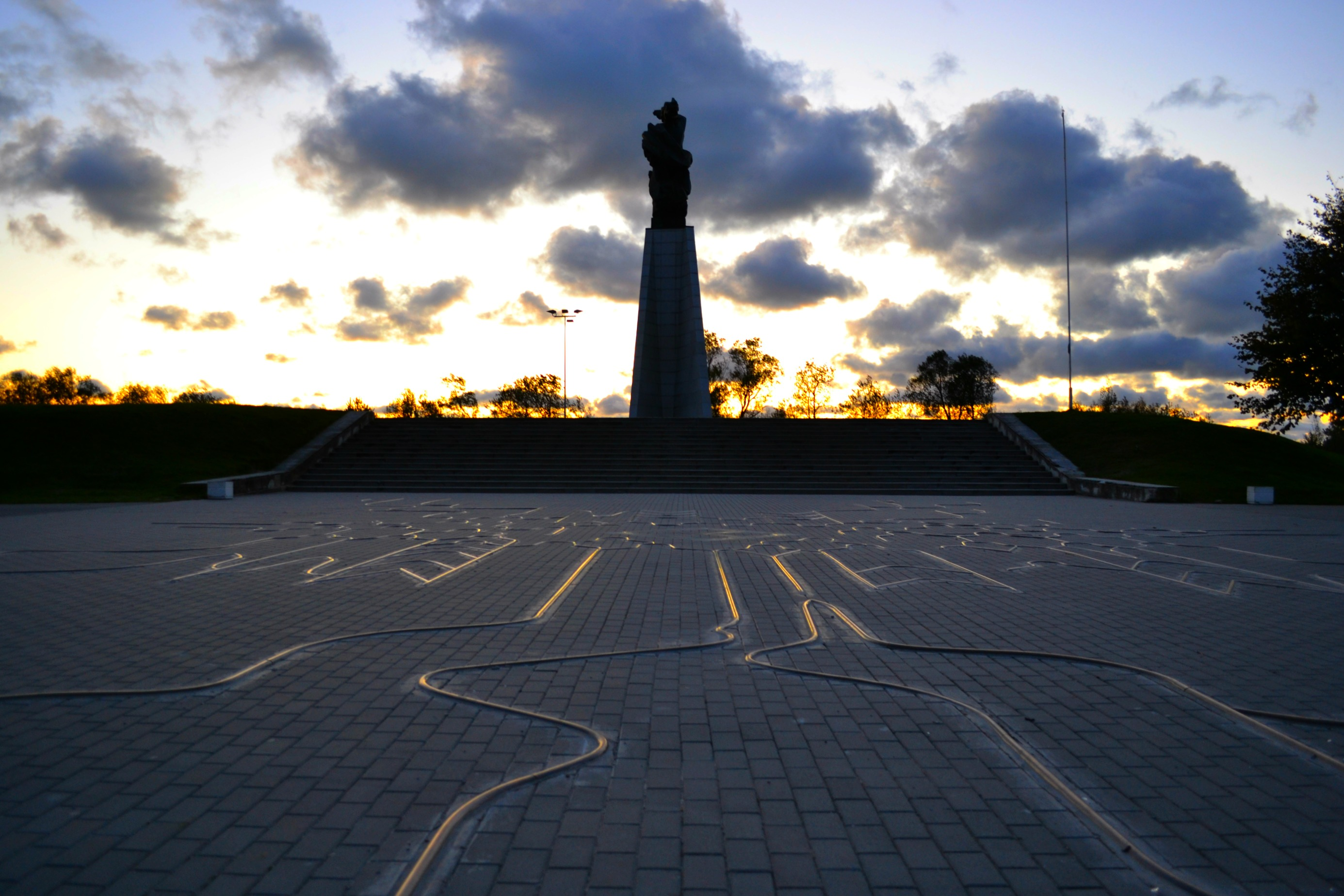 A picture of the monument in 2011, from the path leading into town looking at the rear of the monument